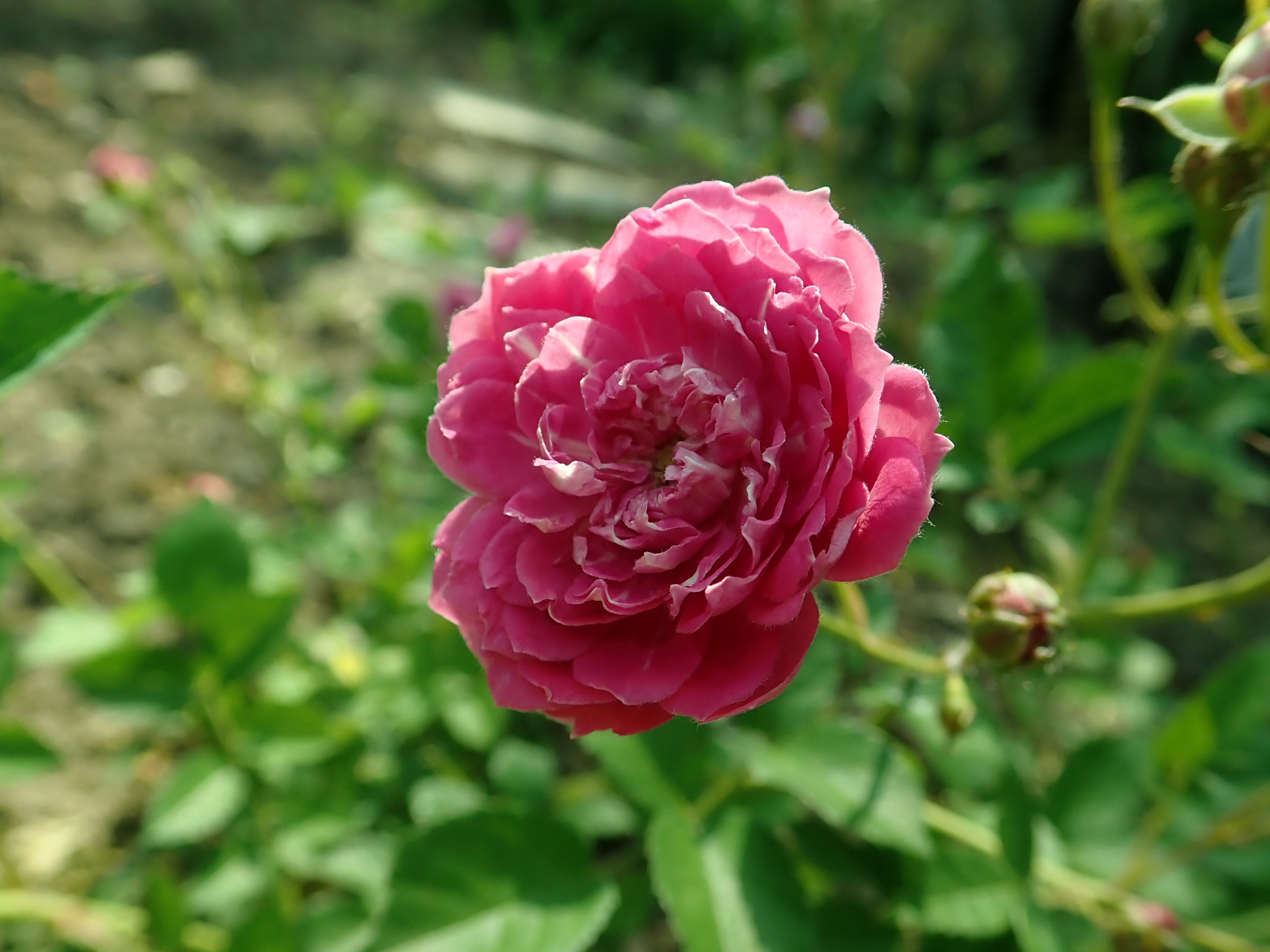 Rosa ‘Petite Léonie’ (Soupert & Notting, 1892), Europa-Rosarium Sangerhausen.